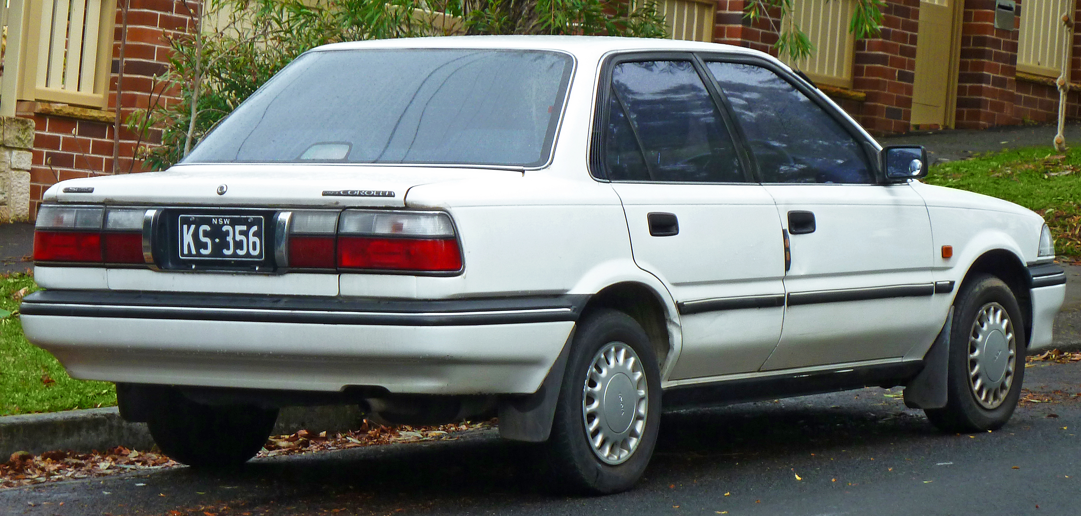 1991–1992 Toyota Corolla (AE94) CSi sedan. Photographed in Roseville, New South Wales, Australia.